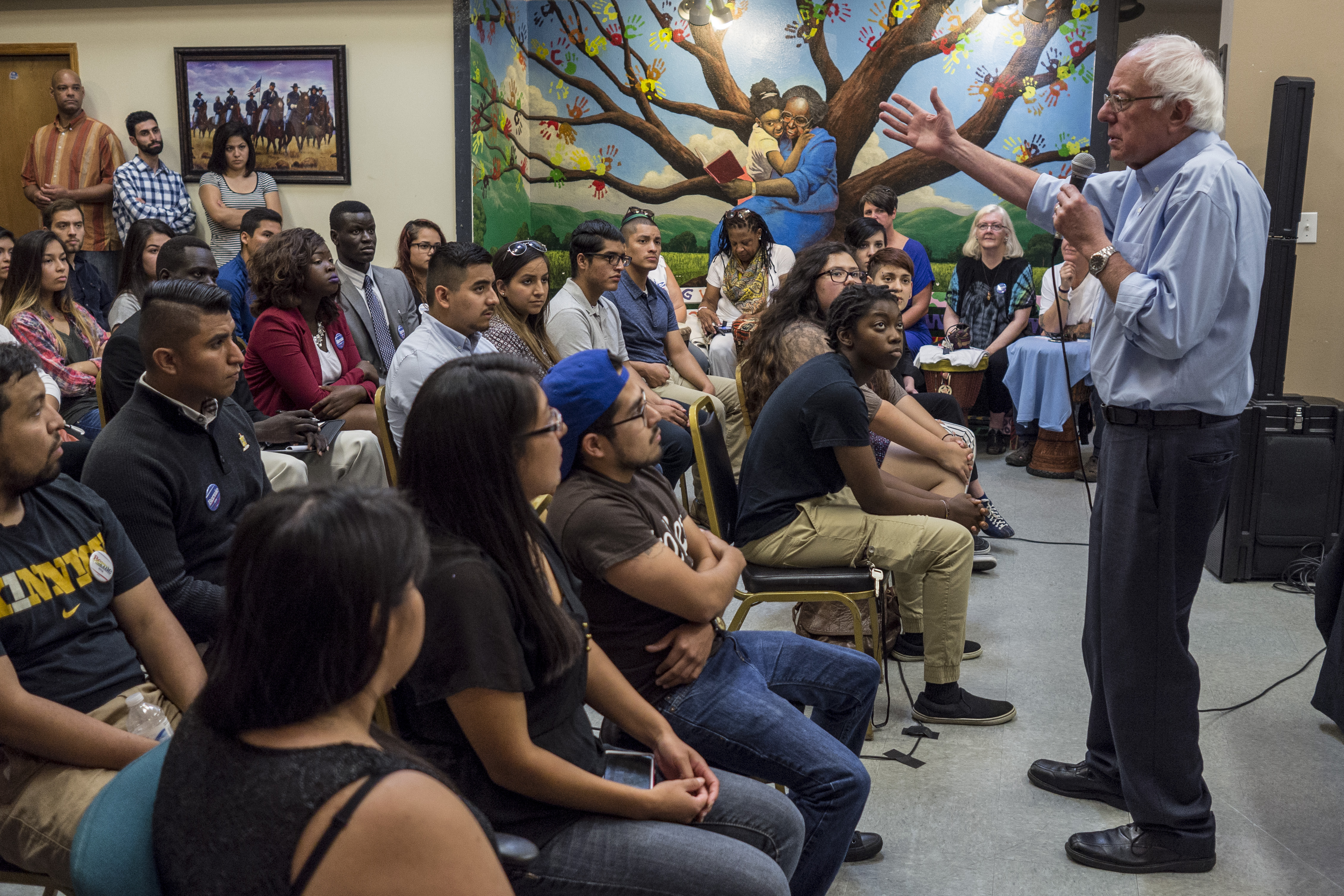 Photos from a Bernie Sanders for President campaign event. The audience was primarily students and young adults asking the U.S. Senator from Vermont about issues ranging from education to immigration to crime to child care. The event was held at Creative Visions, an organization founded by former Des Moines School Board member and current State Representative Ako Abdul-Samad.